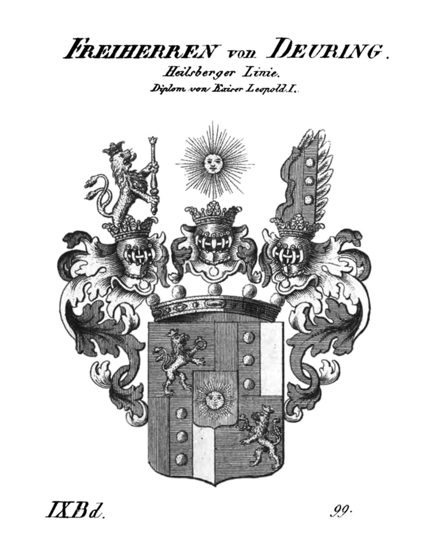 Coat of Arms of Deuring zu Heilsberg (Barons, Austria)